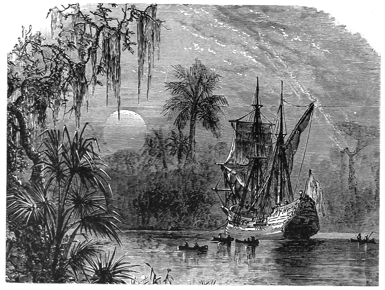 A late-1800s engraving of Ponce de León’s expedition seeking the Fountain of Youth in Florida